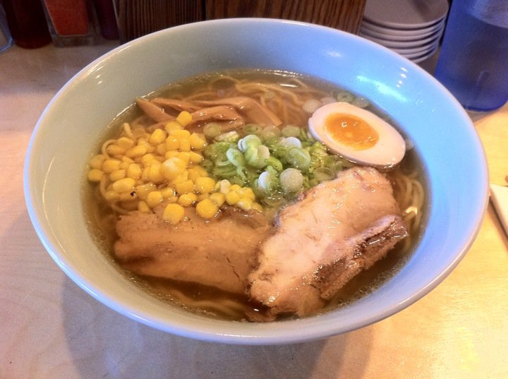 Shio ramen at a South Californian ramen restaurant